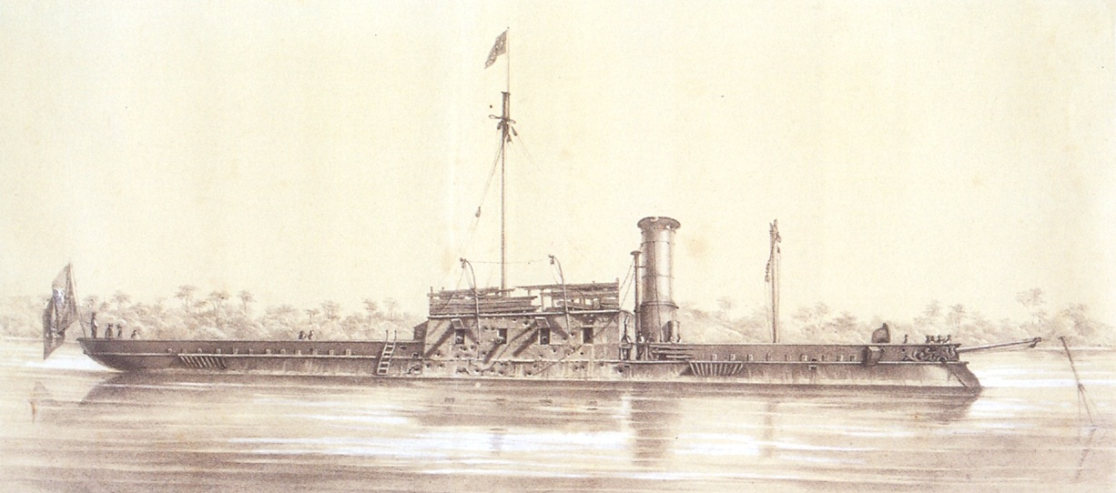 The heavily damaged ironclad Brasil after the Battle of Curupaiti, 1866.